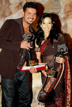 The Raigam Tele Awards initiated by the Kingdom of Raigam for the fifth consecutive year came to a finale recently amidst glitz and glamour. The gala ceremony which is aimed at felicitating the great creations, artistes and crew of the tele field was a crowd puller as 40 awards were handed over to the winners. In the most popular category, last year’s winner Amila Abeysekara managed to hang on to his title while the petite Nehara Peries emerged as most popular actress. Muthu Kirilli was voted as the most popular mega teledrama while Sathara Dennek Senpathiyo carried away the award for the most popular teledrama of the year.